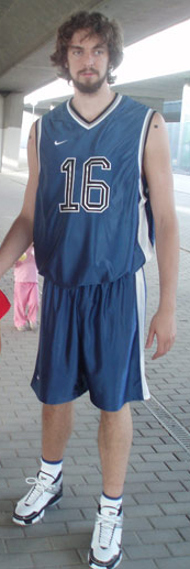 Cropped. The spanish basketball player Pau Gasol.